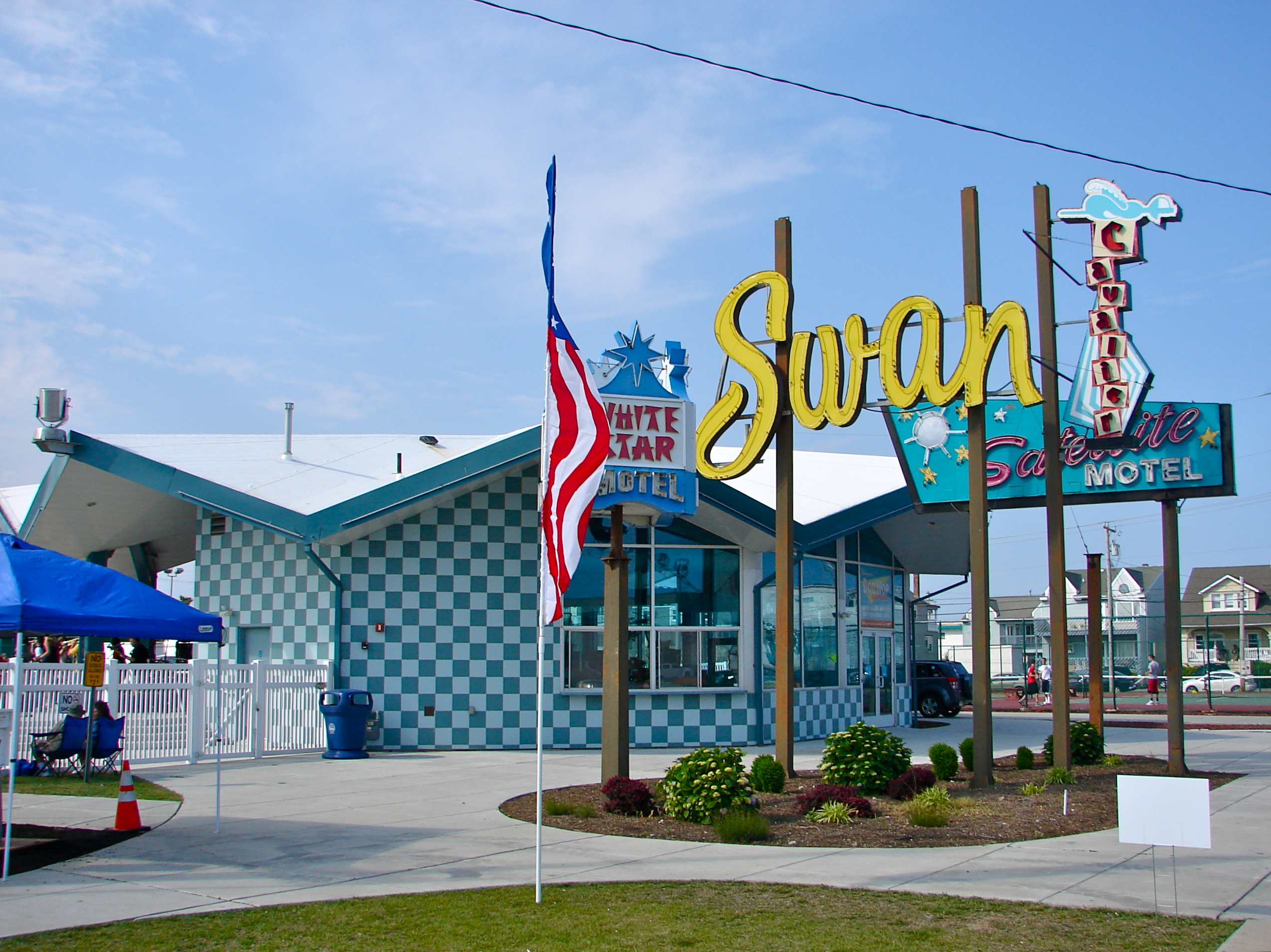 Tourist information center known as the "Doo Wop Experience" in the Wildwoods Shore Resort Historic District a historic district designated by the State of New Jersey. Old restaurant moved to present site across from the Wildwood Convention Center in Wildwood, NJ. Note the collection of old neon signs from motels that have been torn down in the district